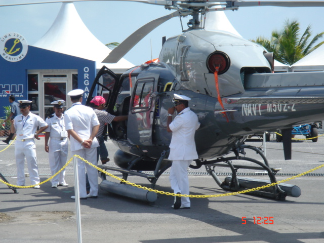 Naval Air Unit Fennec helicopter from 502 Squadron during the LIMA 2007 exhibition. (RELEASED)